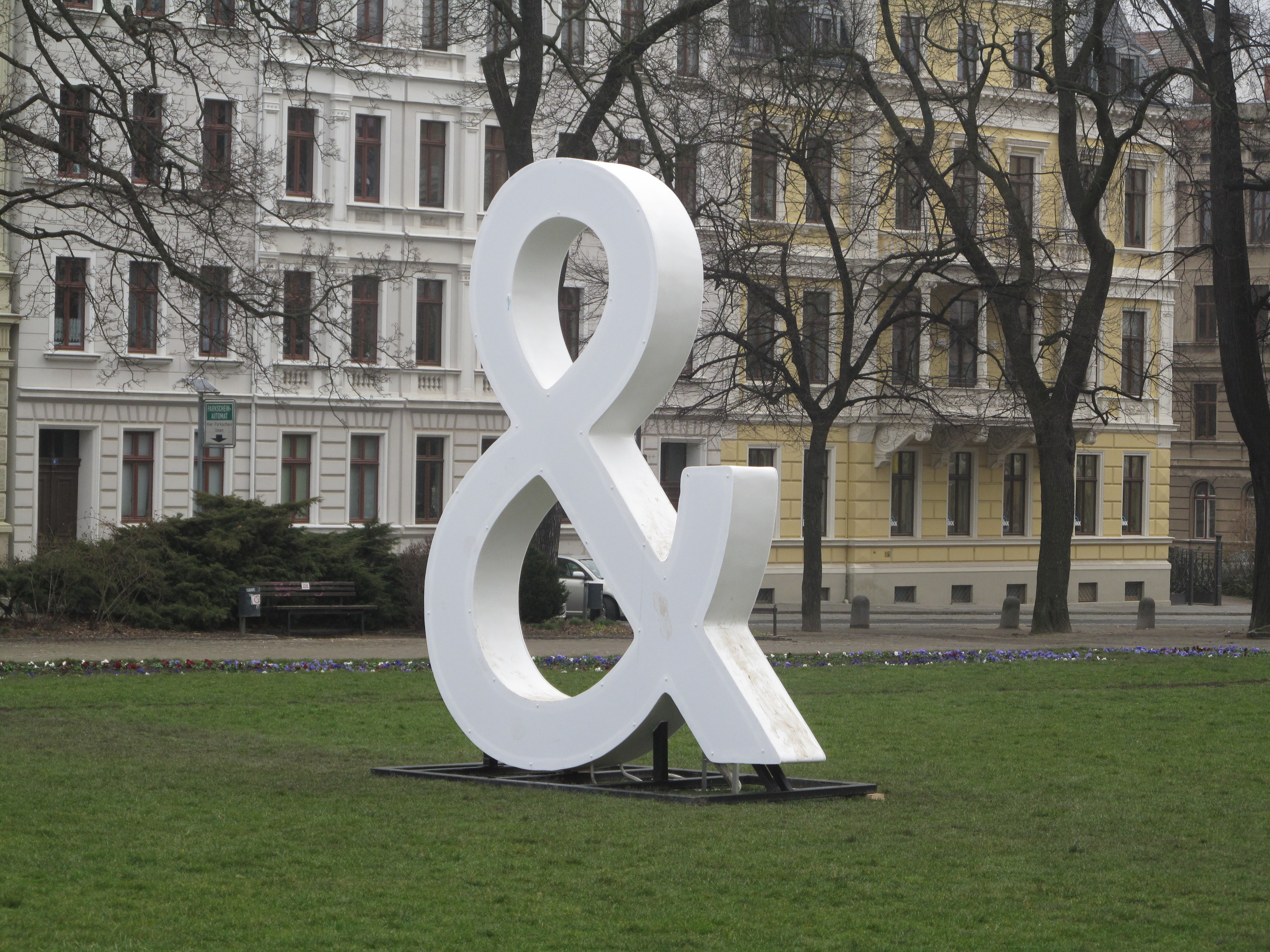 Work of Art (luminous installation) "&" by Krzysztof Furtas as part of Görlitzer ART